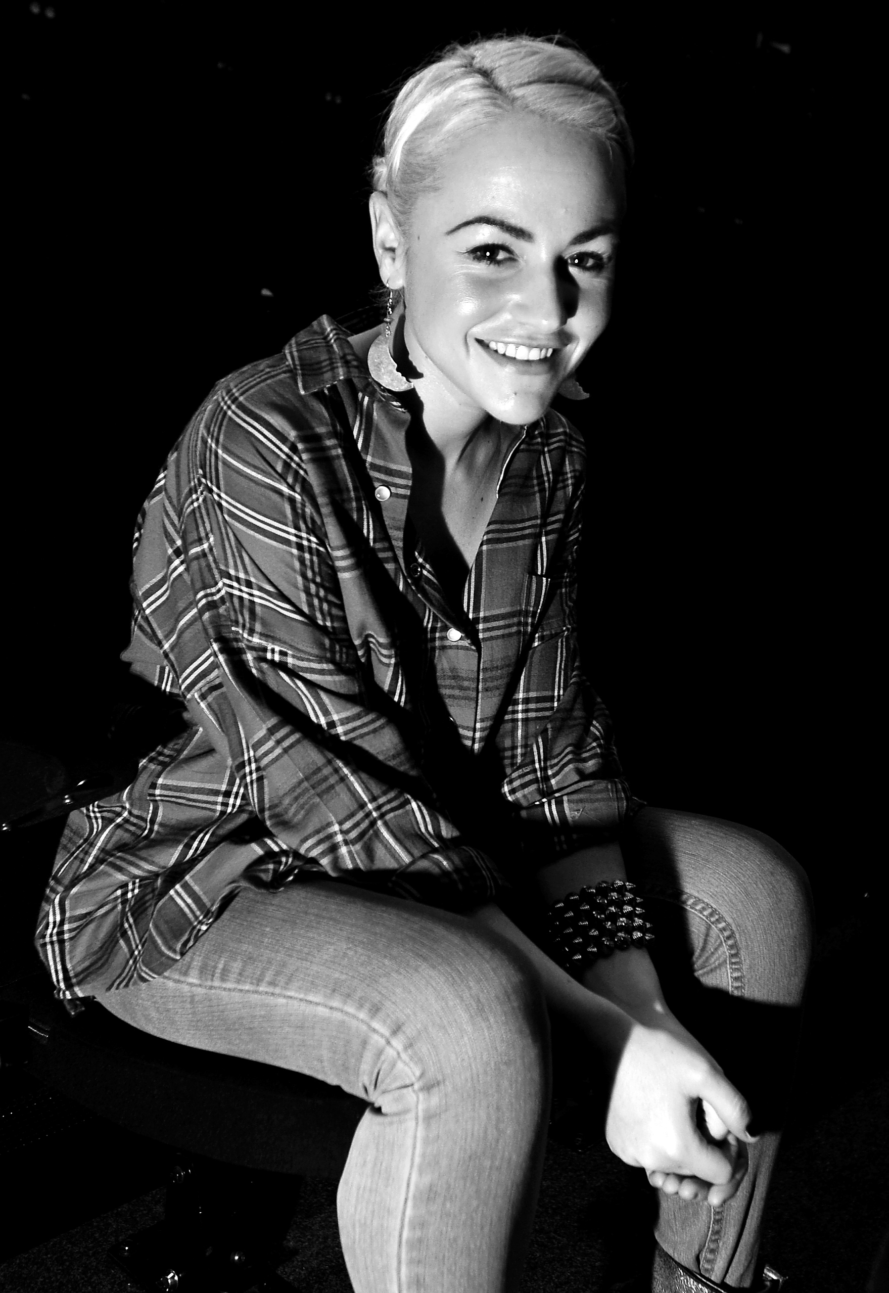 Jaime Winstone